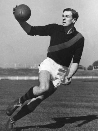 Australian rules footballer John Coleman in an Essendon guernsey; Coleman played for Essendon from 1949 to 1954